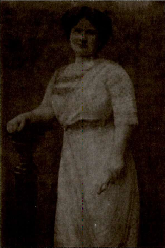 Wife of Abdulhamid II